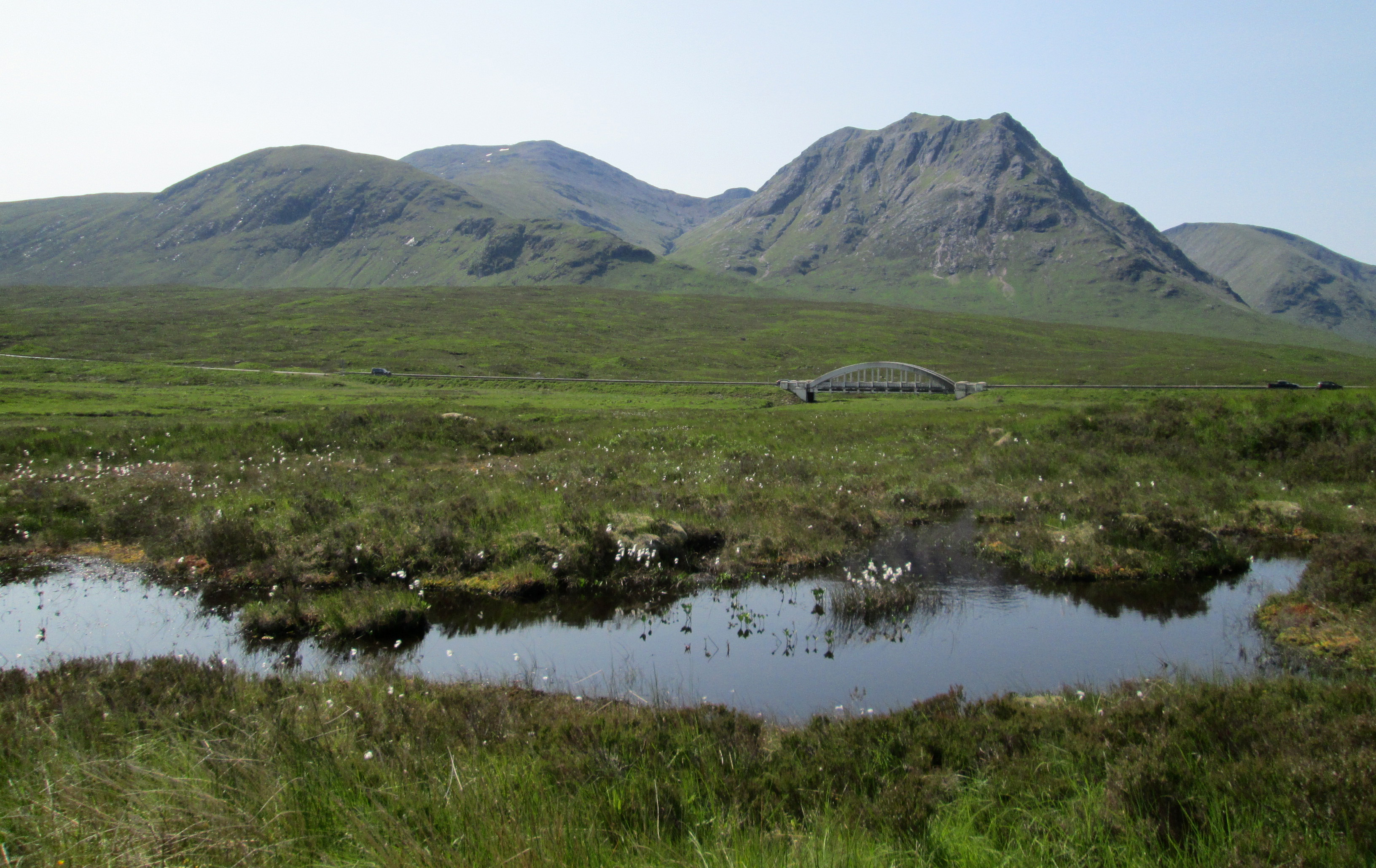 Creise seen from the West Highland Way at the entrance to Glen Coe, with Meall a' Bhùiridh to the left.